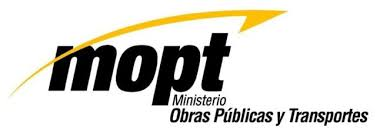 Logo Ministerio de Obras Públicas y Transportes